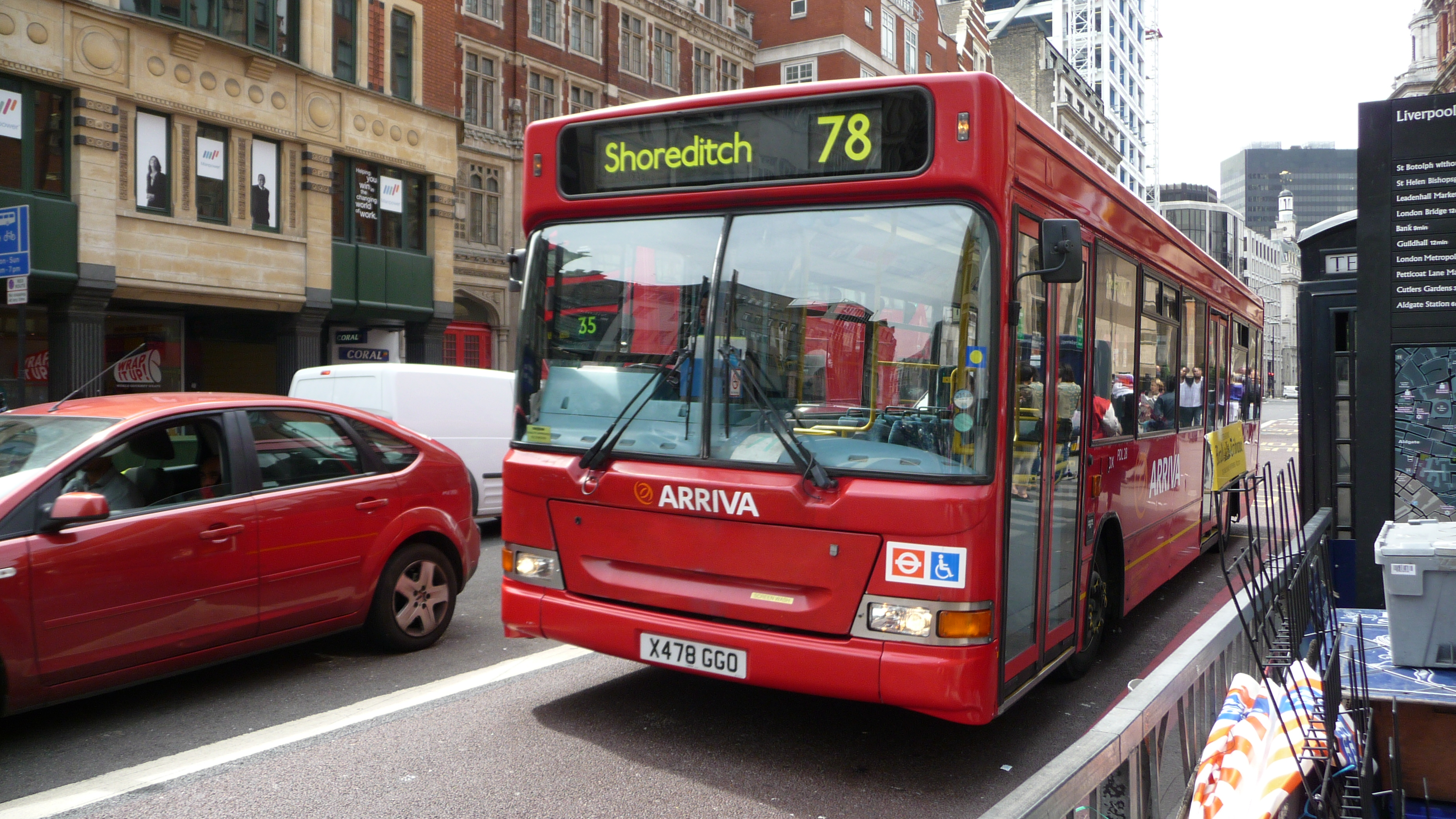 Arriva London North PDL28 (X478 GGO), a Dennis Dart SLF/Plaxton Pointer 2, in Bishopgate, City of London, on route 78.